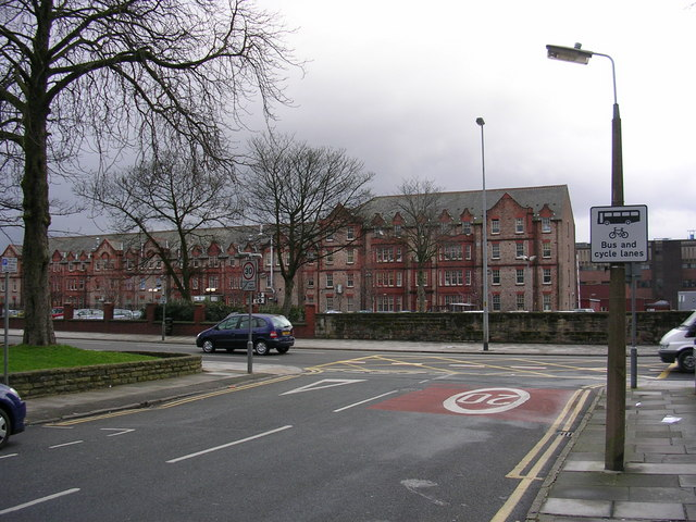 Hope Hospital Looking down Wilton Road and across Eccles Old Road towards older buildings of the Hope Hospital complex in Salford.